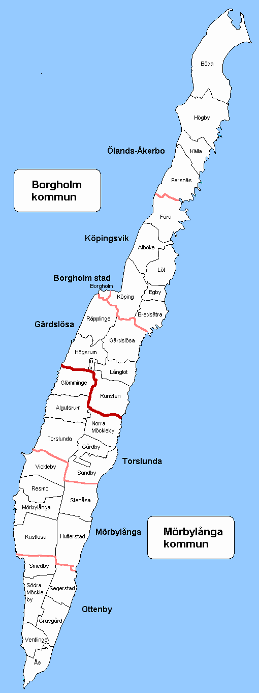 old municipalities on Öland